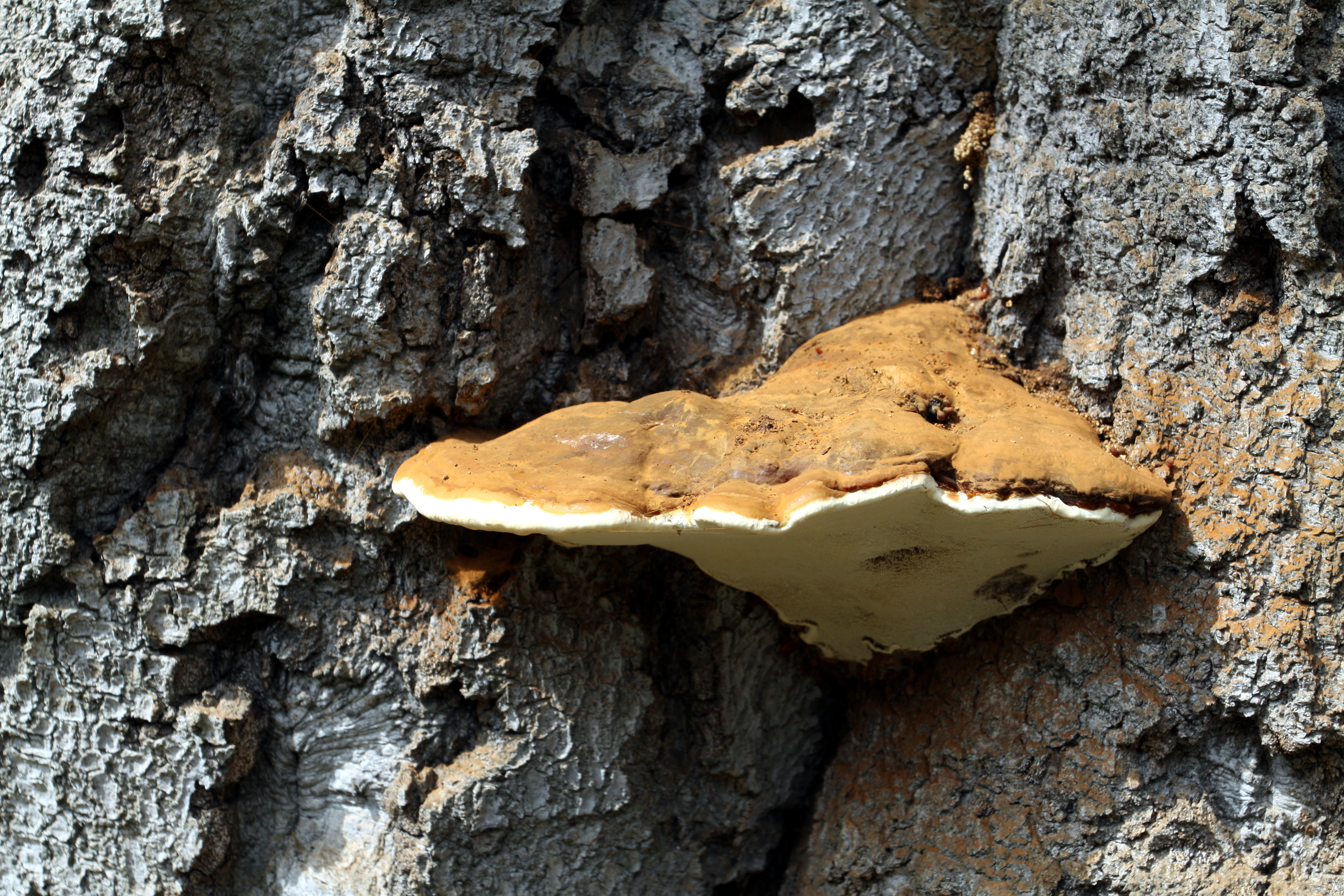 Ganoderma resinaceum in Epping Forest in London, England, Great Britain.